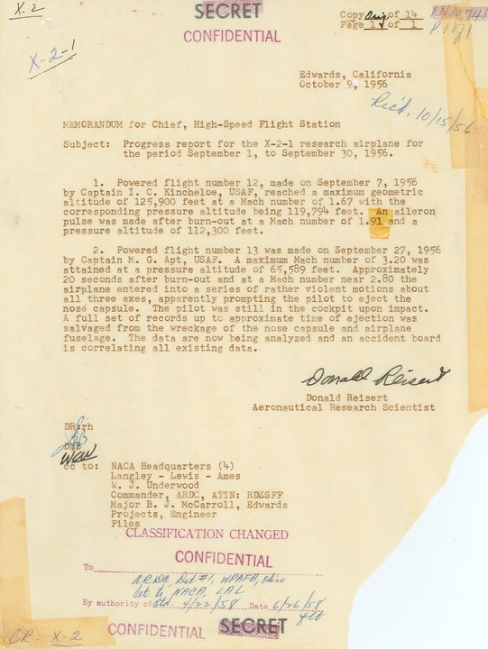 Flight report of flights 12 and 13 in the X-2-1 project, recording the first Mach 3 flight in history and the resultant death of pilot Mel Apt. Via NARA in Philadelphia.